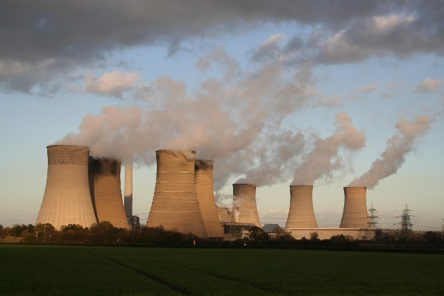 Cooling towers, West Burton Power Station